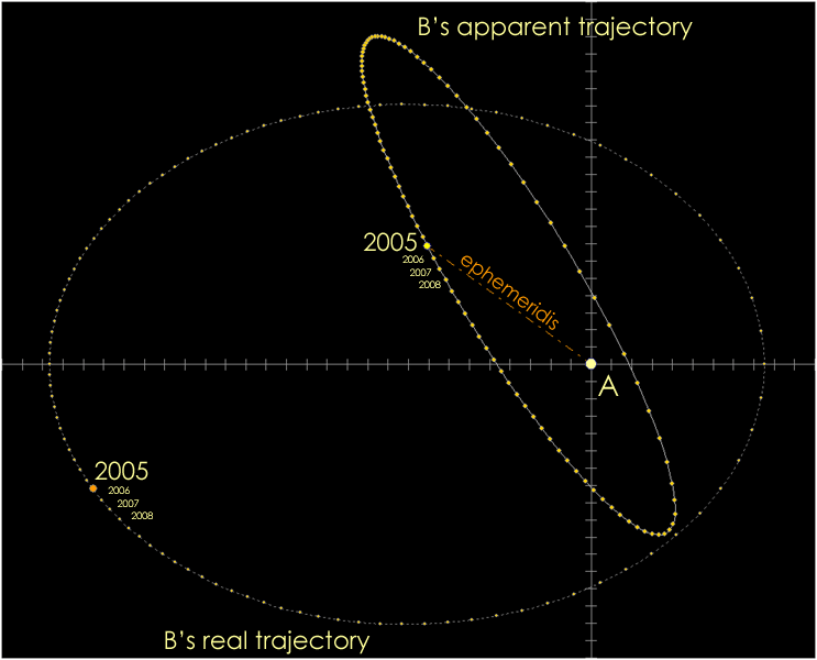 Apparent and True Orbits of Alpha Centauri. Motion is shown from the A component against the relative orbital motion of B component. The Apparent Orbit (thin ellipse) is the shape of the orbit as seen by the observer on Earth. The True Orbit is the shape of the orbit viewed perpendicular to the plane of the orbital motion.